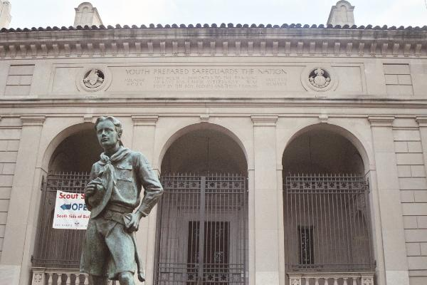 Front of the Cradle of Liberty Council building with the Ideal Scout Statue by R. Tait McKenzie, 22nd & Winter Streets, Philadelphia, PA